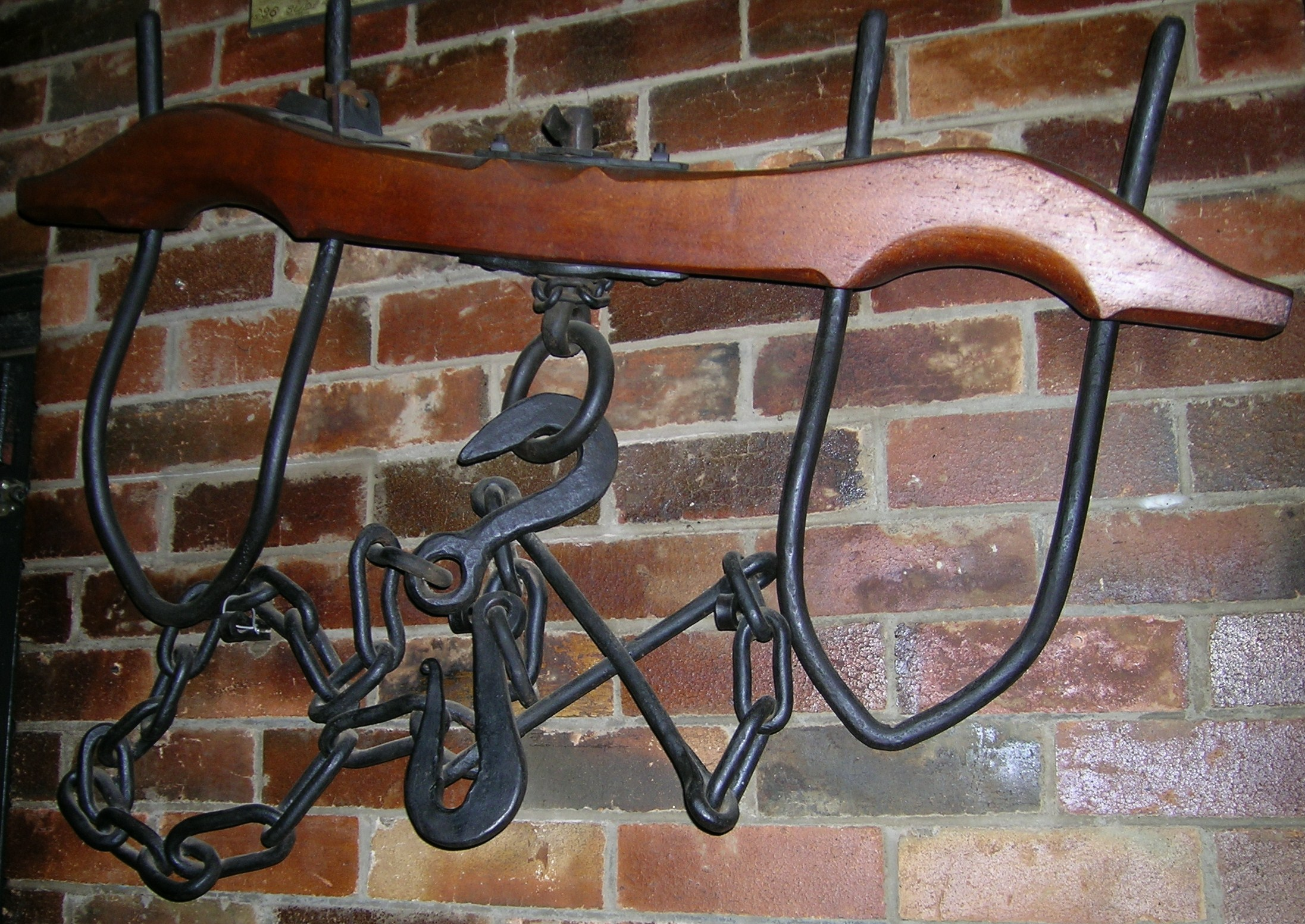 A wooden bullock yoke, bows and chain as used by bullock and ox teams.